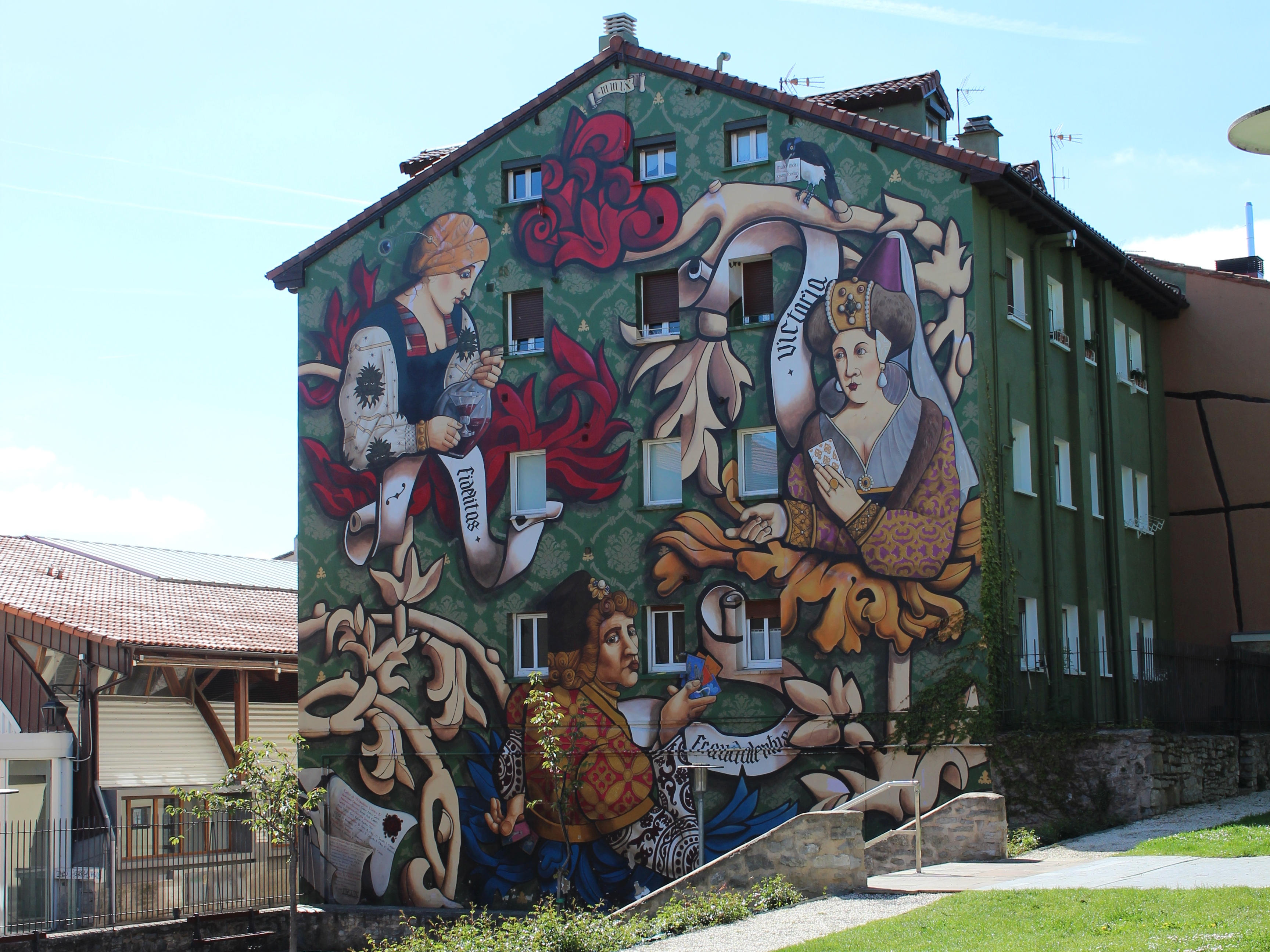 Mural "El Triunfo de Vitoria" in the old town of Vitoria-Gasteiz